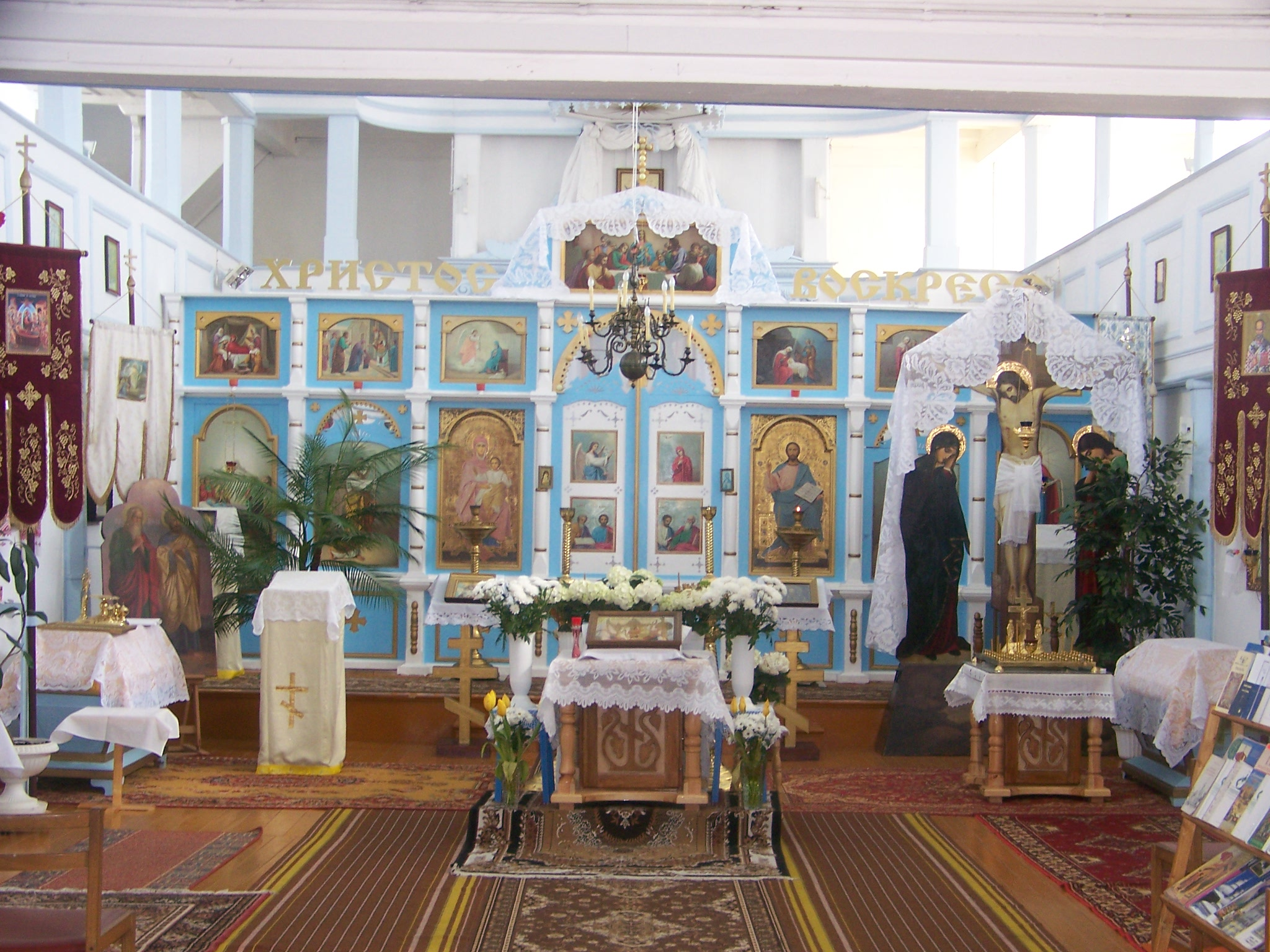 Orthodox church in Koszalin, Poland